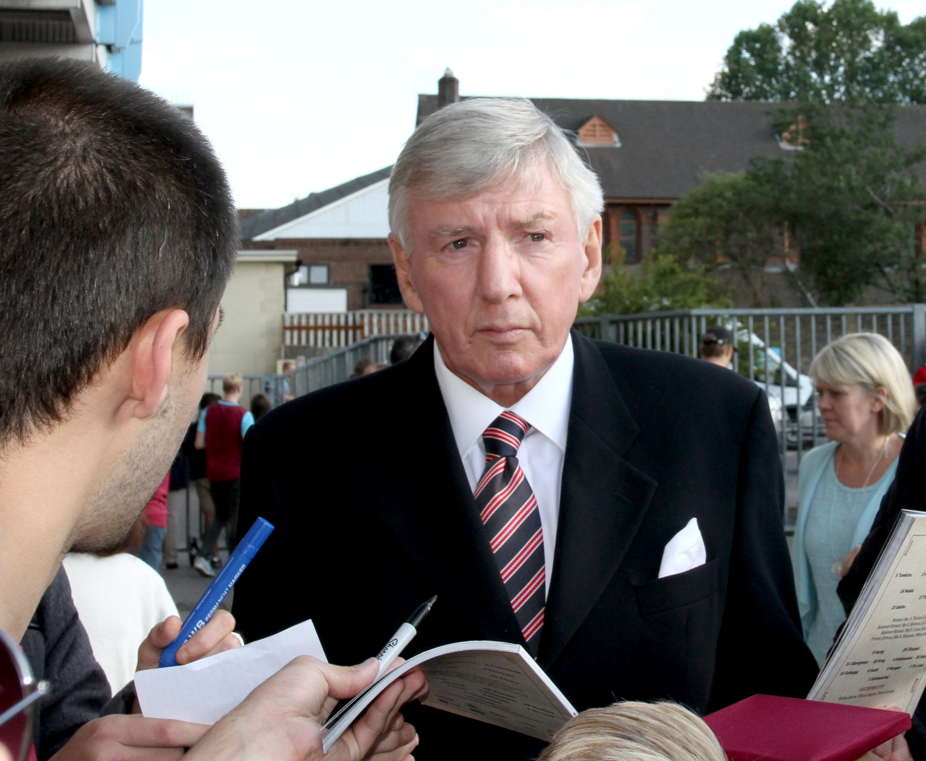 Martin Peters signing autographs at the Boleyn Ground 15Aug2015